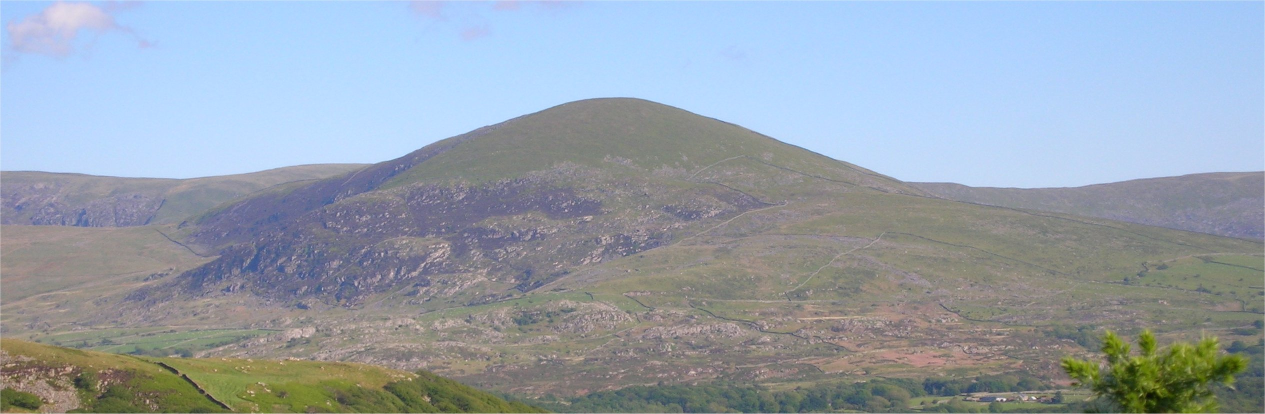 Moelfre in Gwynedd, North Wales. Taken from Harlech. Photographed by me 29May 2007. Oosoom